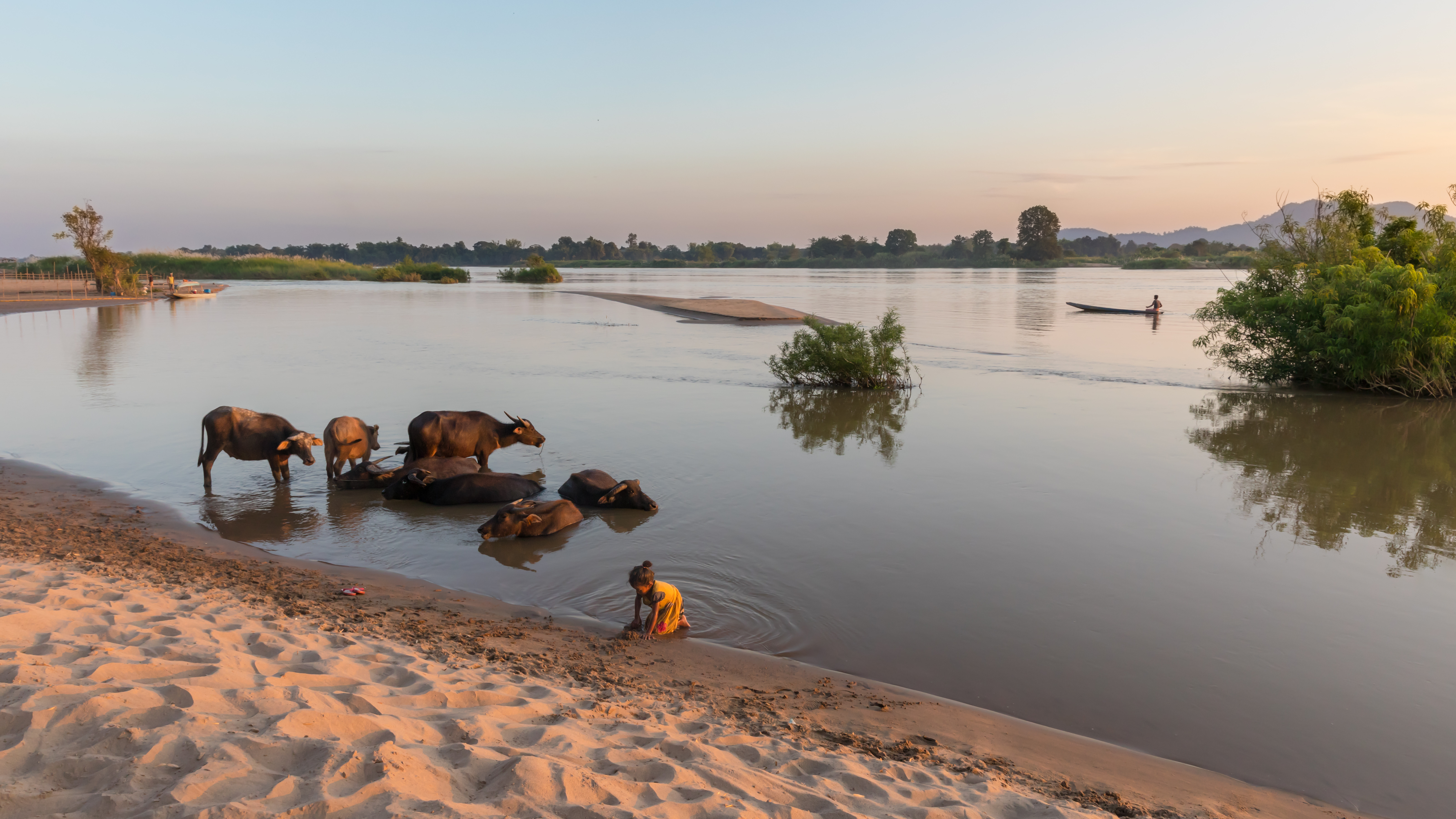 River bank at sunset from the island of Don Puay, Si Phan Don, Laos. Landscape with submerged shrubs reflecting in the Mekong, water buffaloes bathing, a young girl playing in the sand, and a fisherman on his pirogue at the distance